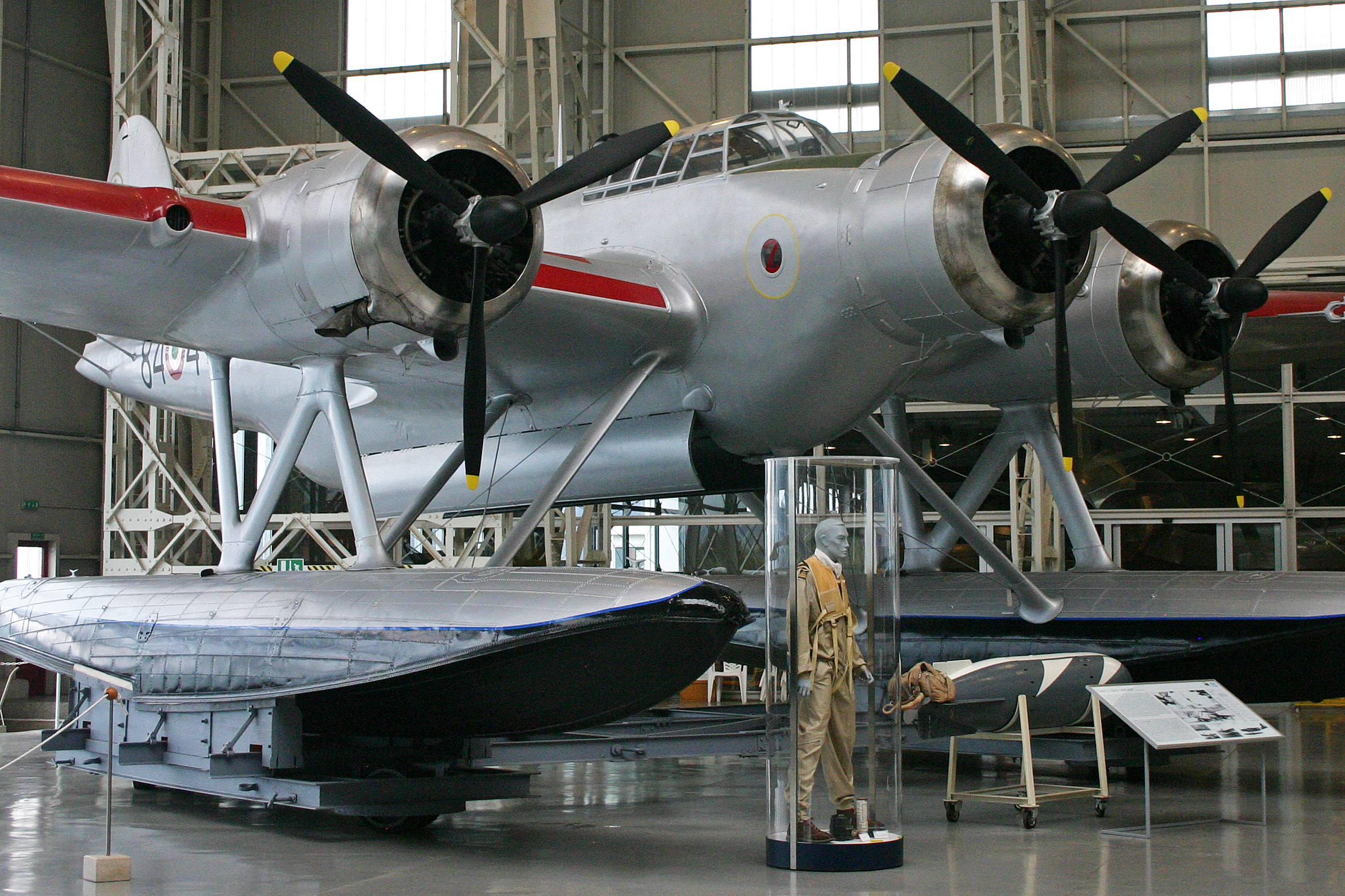 Displayed in Hangar BADONI